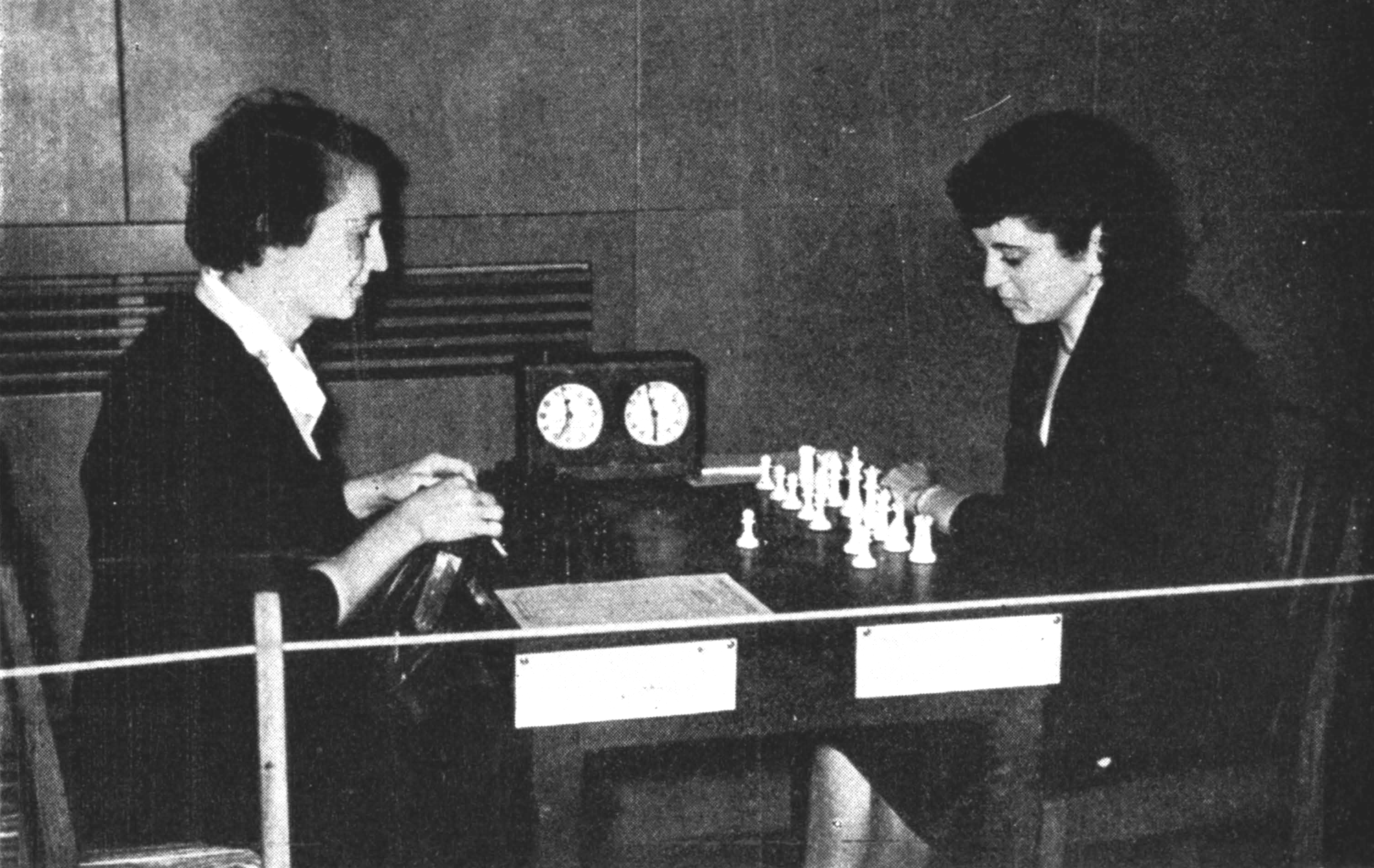 Celia Baudot vs María Montero - AJEDREZ Magazine Nº 03 - June 1954